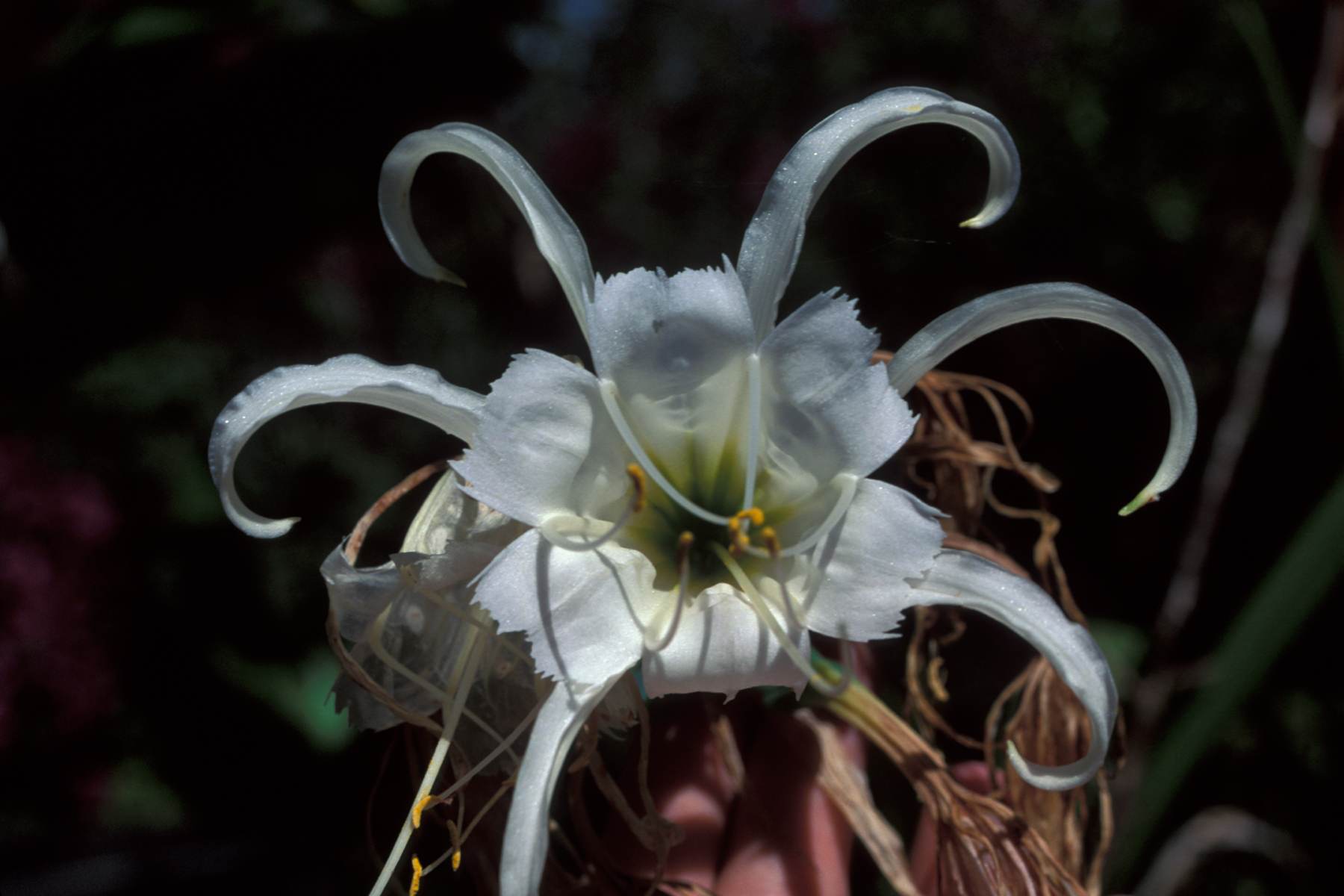 Hymenocallis sp. (flower). Location: Maui, Enchanting Floral Gardens of Kula